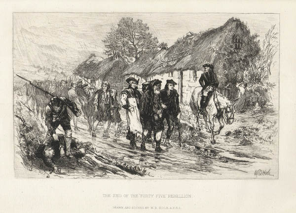 The End of the 'Forty Five' Rebellion, by William Brasse Hole, published in The Art Journal in 1882.This image depicts the final chapter of the 1745 Jacobite Rebellion which was led by Charles Edward Stuart. The image shows the fatigue, hunger and despair of the wounded soldiers.